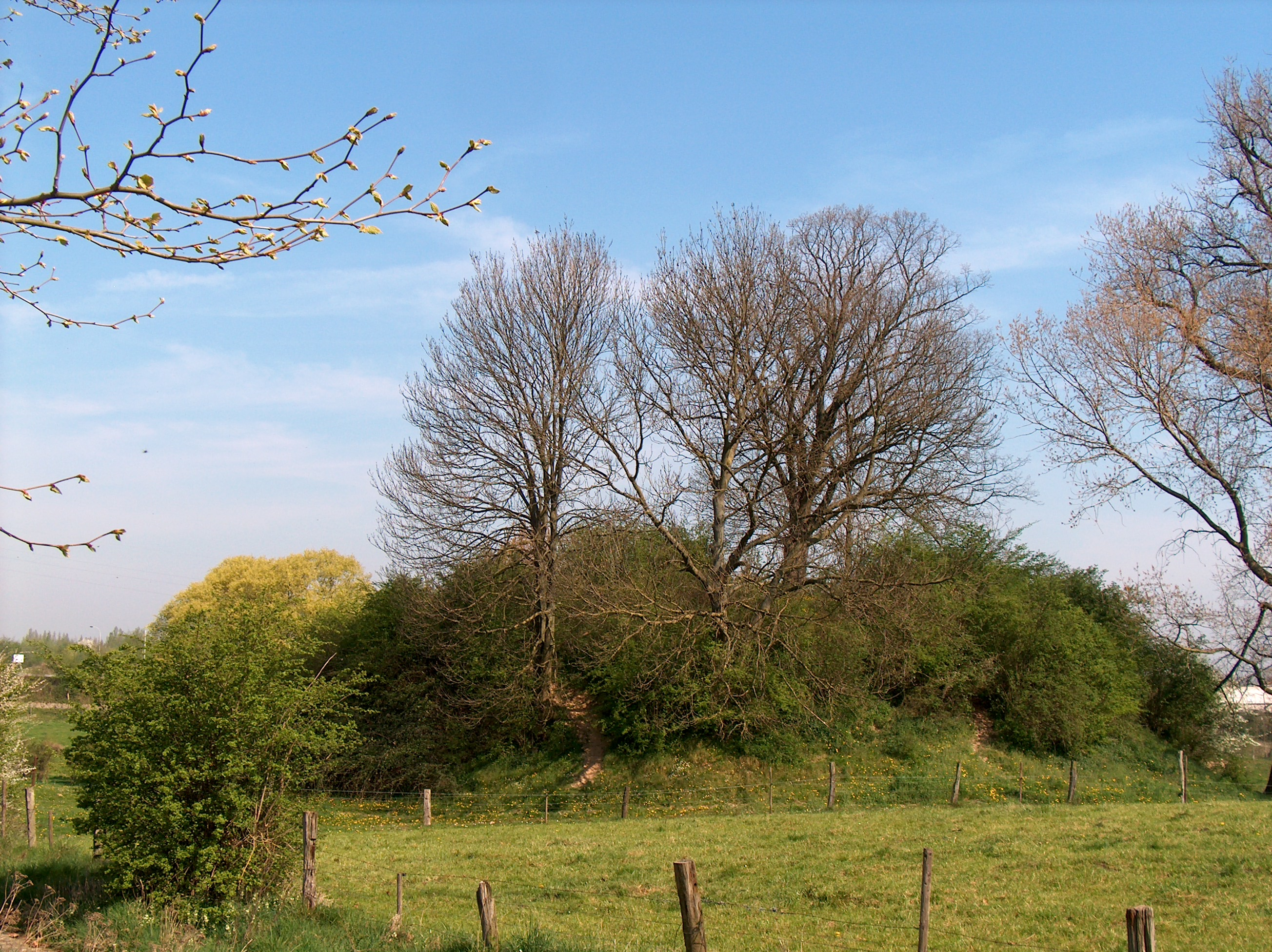 So called "Tomb of Pepin of Landen", in reality a Motte at Sinte-Gitter. It is not a tumulus, nor a tomb and not related to Pepin of Landen.